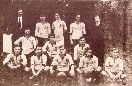 The Sport Club Corinthians Paulista team of 1914, that won its first Paulista championship for the club. Players are: Fúlvio, Casimiro do Amaral and Casimiro Gonzalez; Police, Biano and Cesar; Aristides, Peres, Amilcar, Dias, Neco.